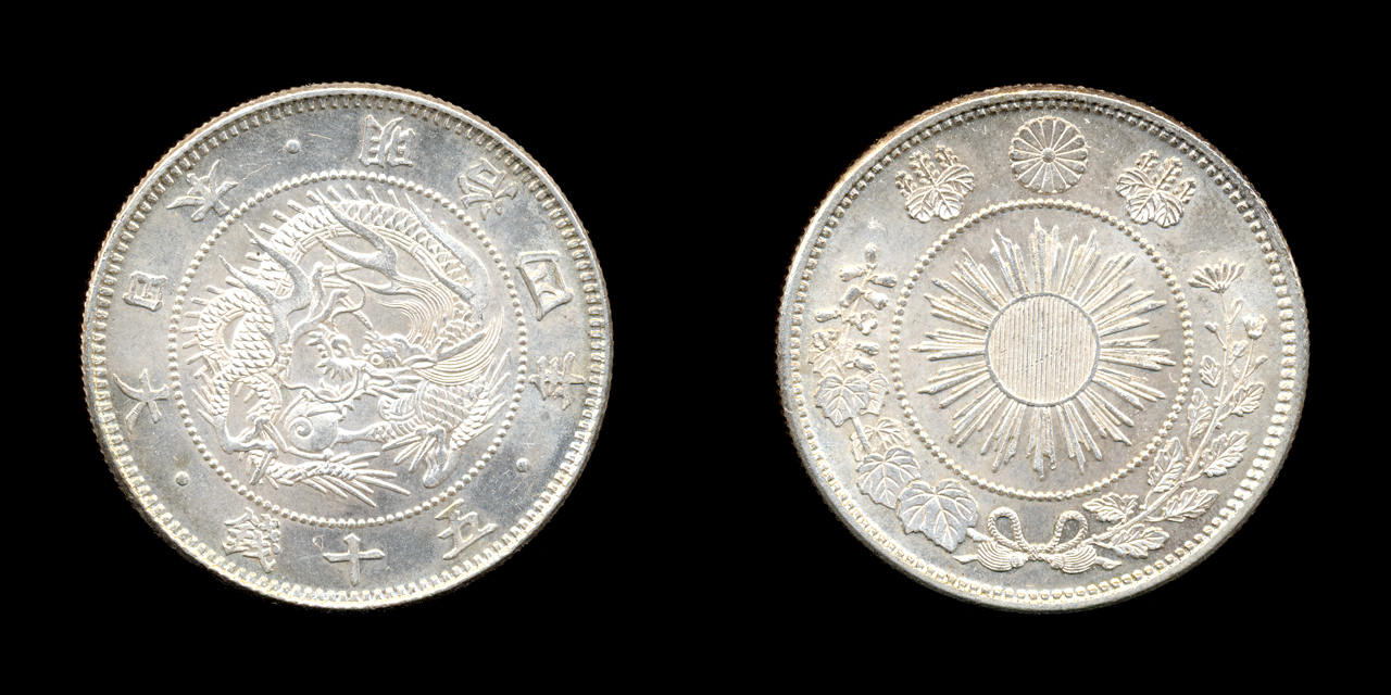 50sen-M4